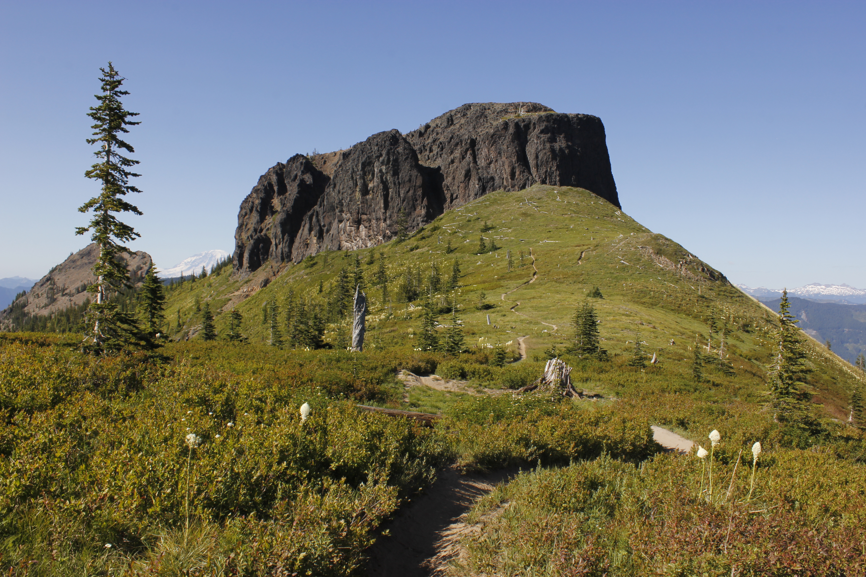 Jumbo Peak along Juniper Ridge Trail (261) on the Gifford Pinchot National Forest Photo by Matthew Tharp